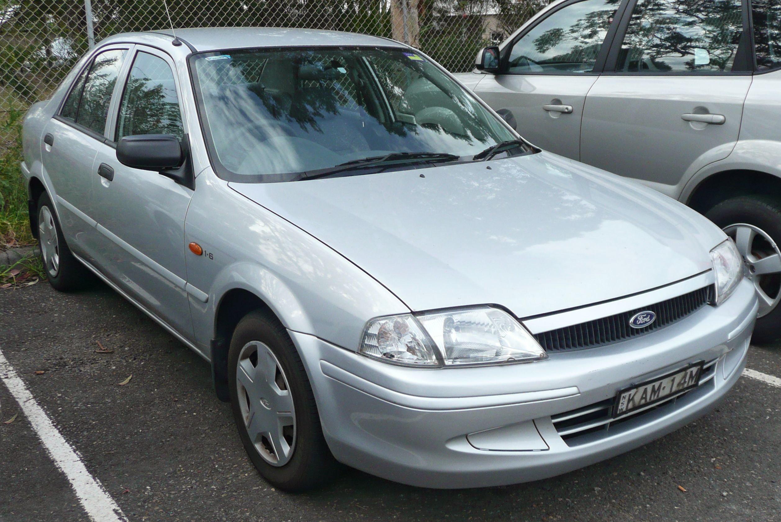 1999–2001 Ford Laser (KN) LXi sedan. Photographed in Loftus, New South Wales, Australia.